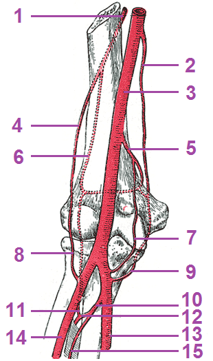 Numbered version of Gray526.png